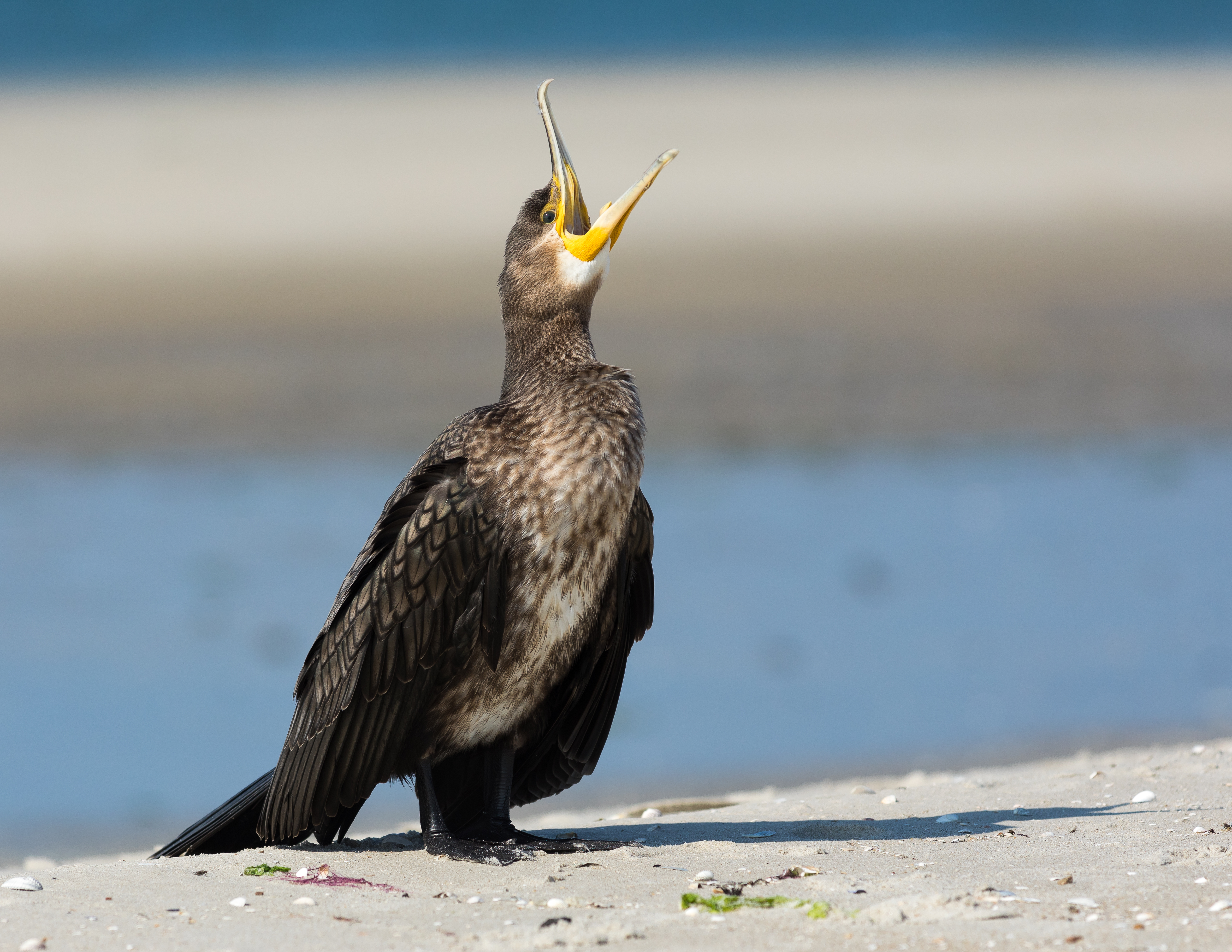 Juvenile great cormorant (Phalacrocorax carbo) on the shores of the North Sea near Nebel, Amrum